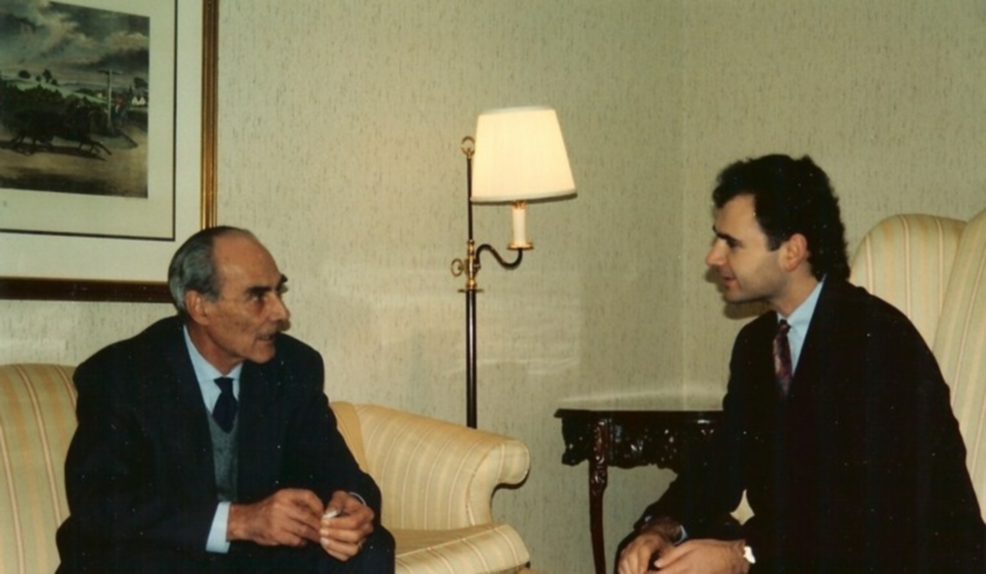 Prince Tomislav Karadjordjevic and Dejan Stojanović during the interview conducted by Stojanović in Chicago, 1993